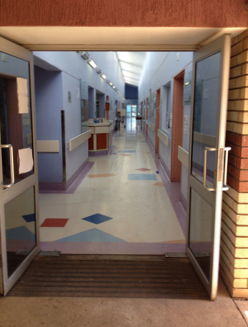 Ward at St Patrick's Hospital, Bizana, Eastern Cape